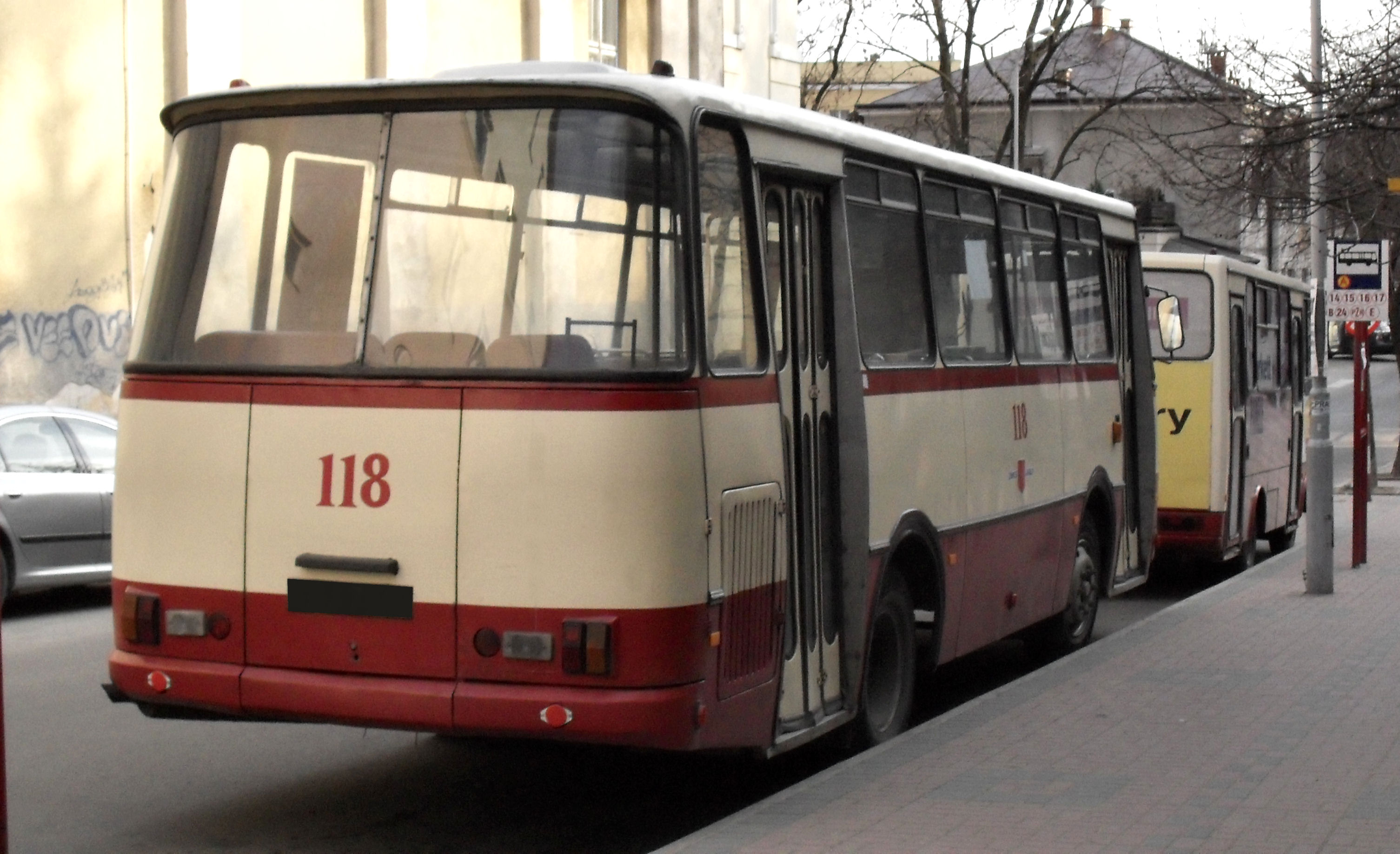 Autosan H9-35 city bus (#118) in Jasło, Poland. Built 1985, ZMKS Jasło operator.